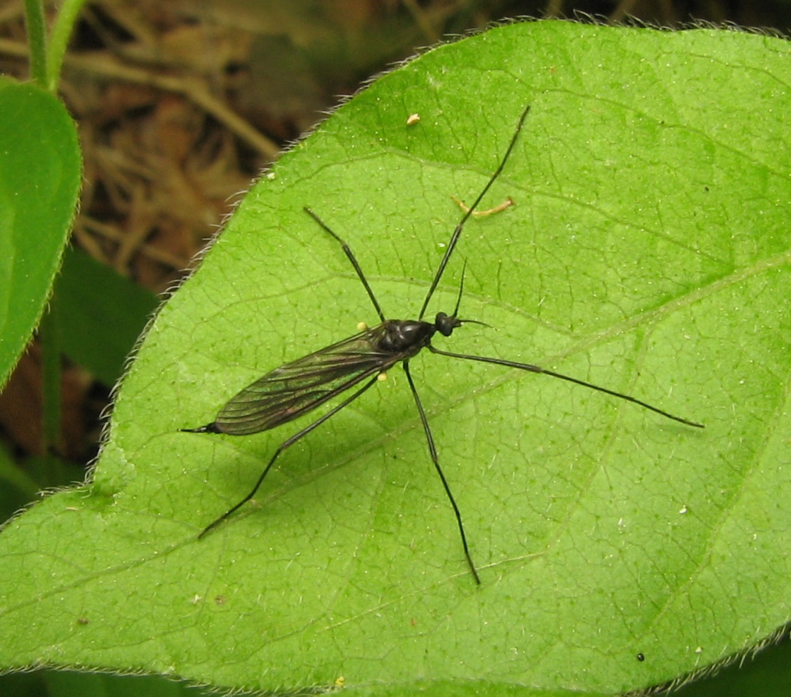 Gnophomyia tristissima. Schuylkill Nature Center, Philadelphia County, Pennsylvania, USA.